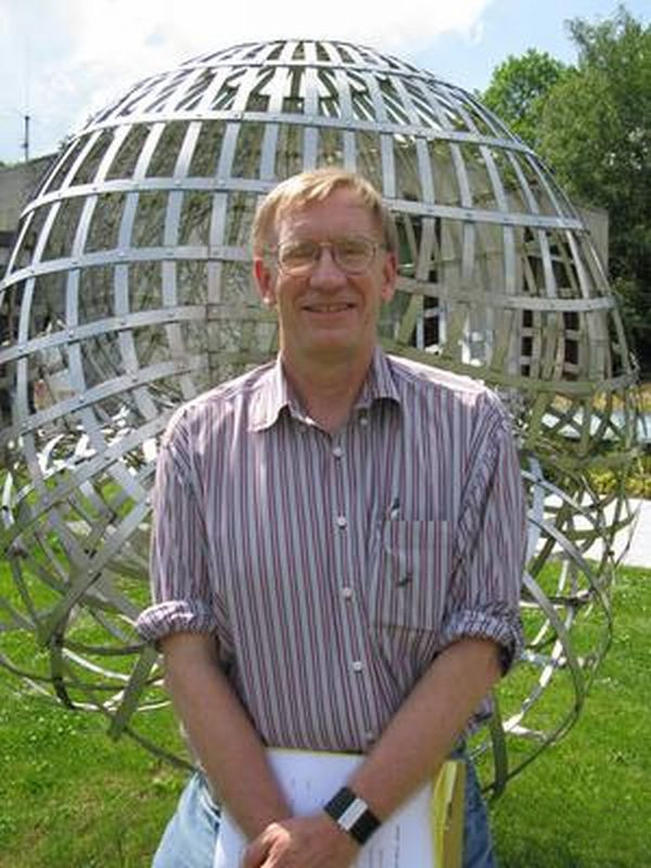 Gunnar Carlsson, Oberwolfach 2008